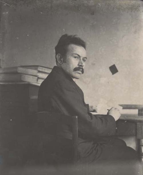 Mirash Ivanaj in his desk